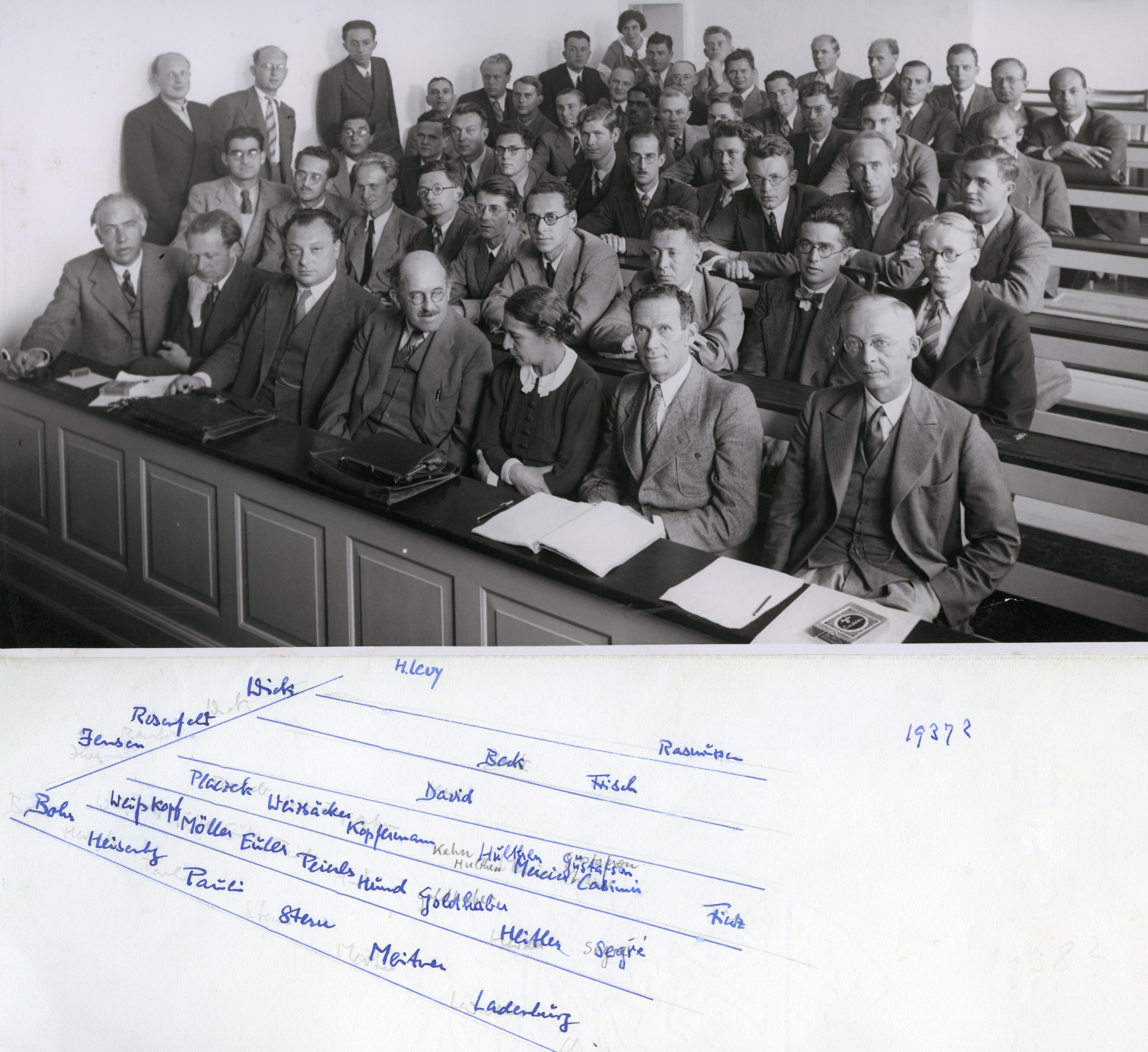 Niels Bohr, Werner Heisenberg, Wolfgang Pauli, Otto Stern, Lise Meitner, Rudolf Ladenburg and other physicists, probable 1937 on the occasion of an colloquy with Nobel Price winners at Copenhagen (original annotations by Friedrich Hund).